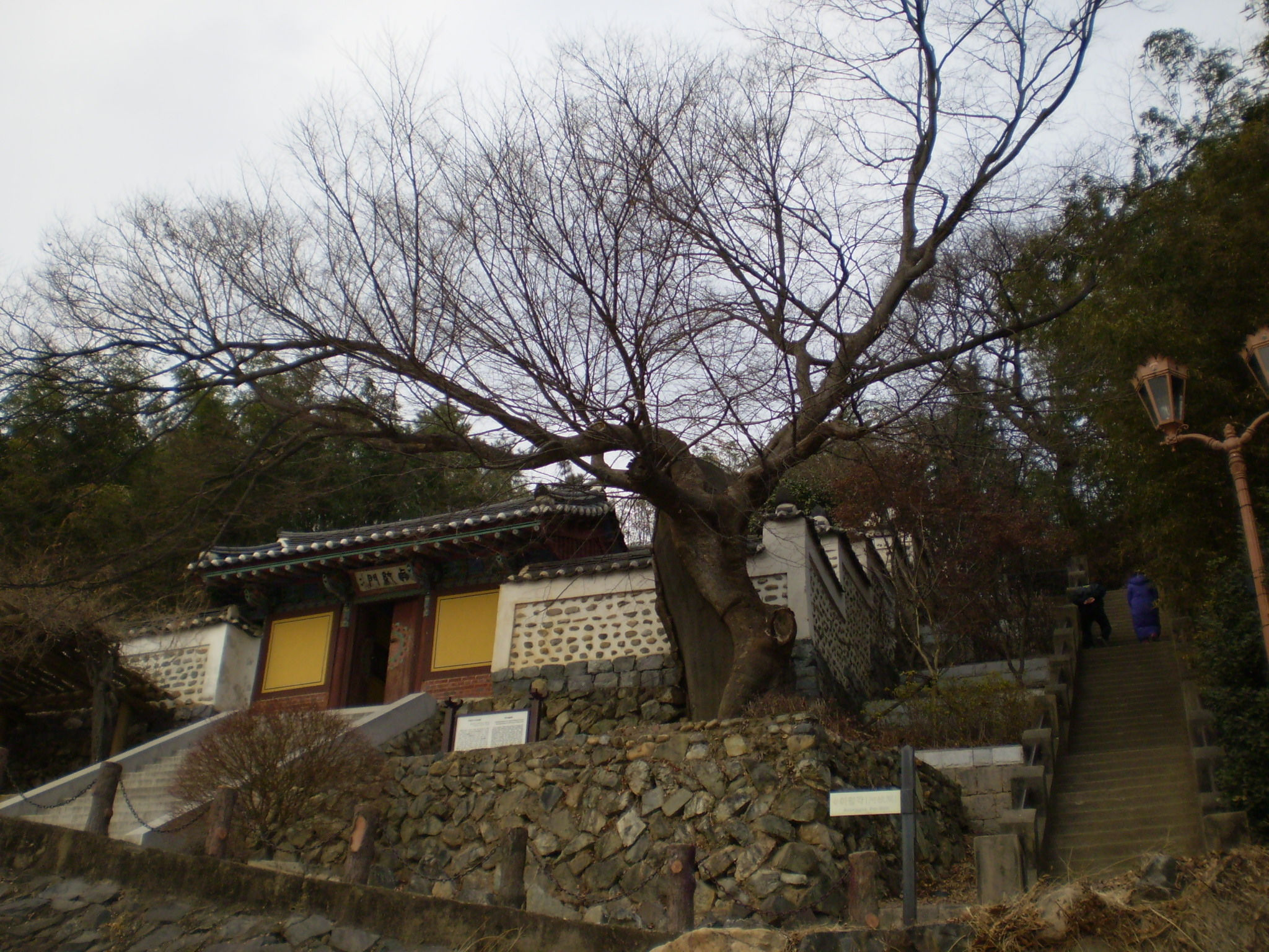 Exterior of Aranggak shrine in Miryang, Gyeongsangnam-do, South Korea.